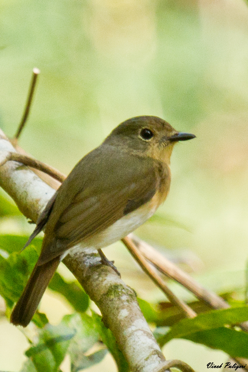 Blue-throated Blue Flycatcher (f)